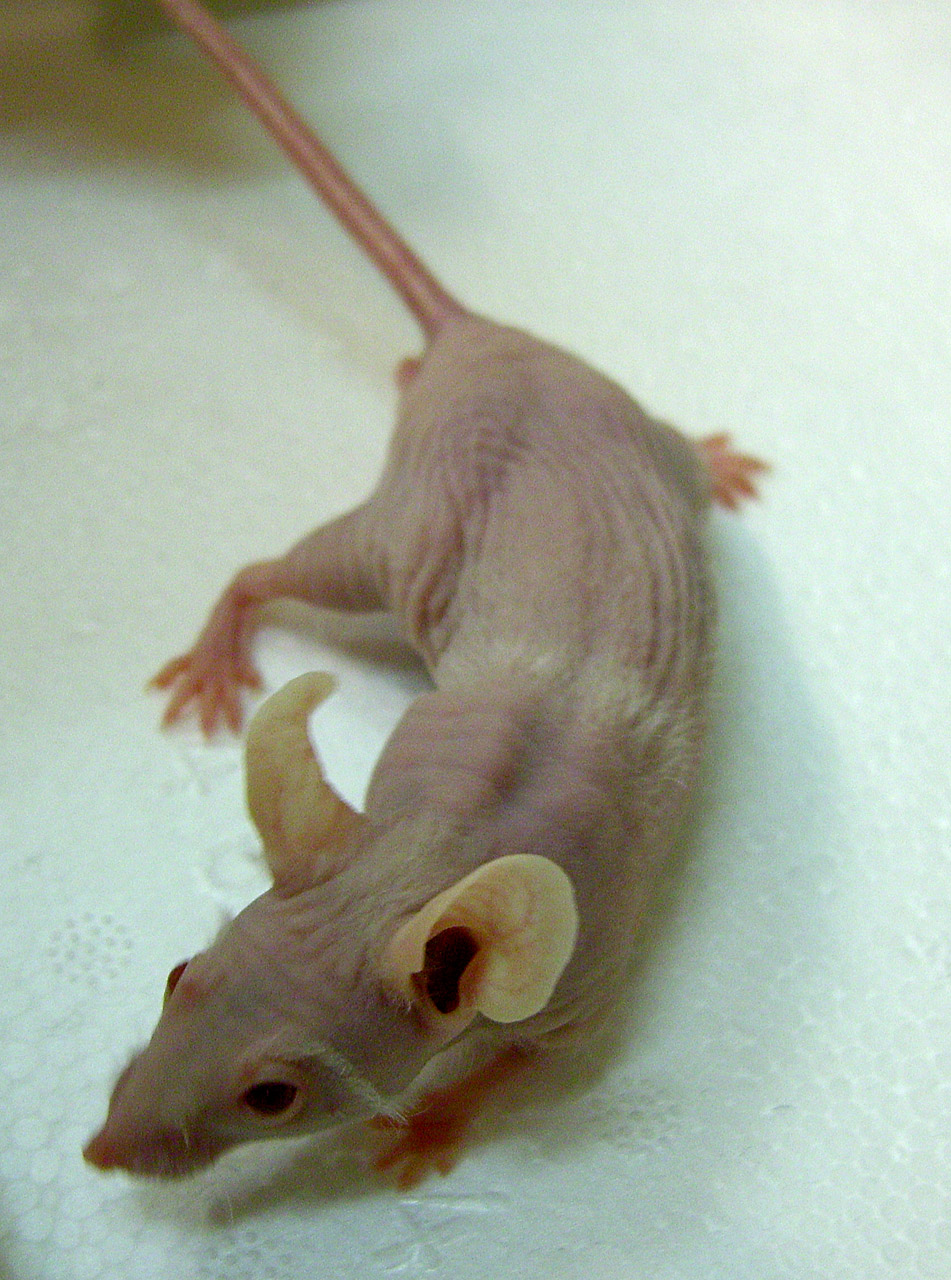 Nude mouse (athymic mouse). Special thanks to PD Dr. Walter Mier (University of Heidelberg